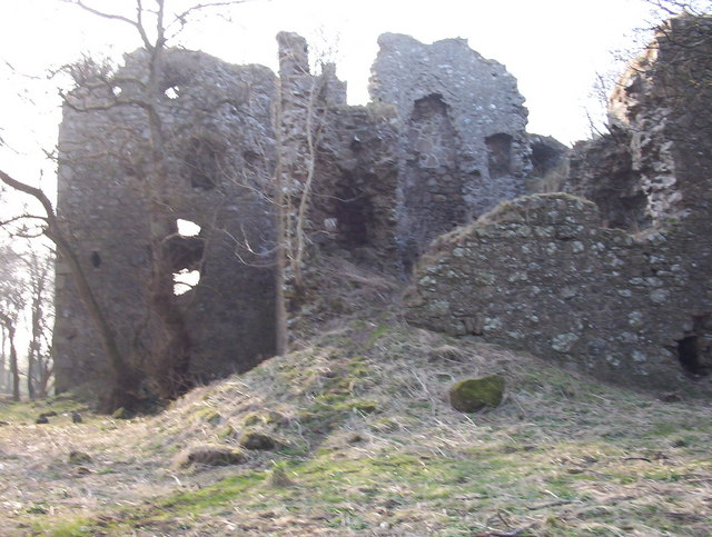 Ravenscraig Castle View 2. Another view of this historic old castle on the bank of the River Ugie at Ravenscraig. See 481419